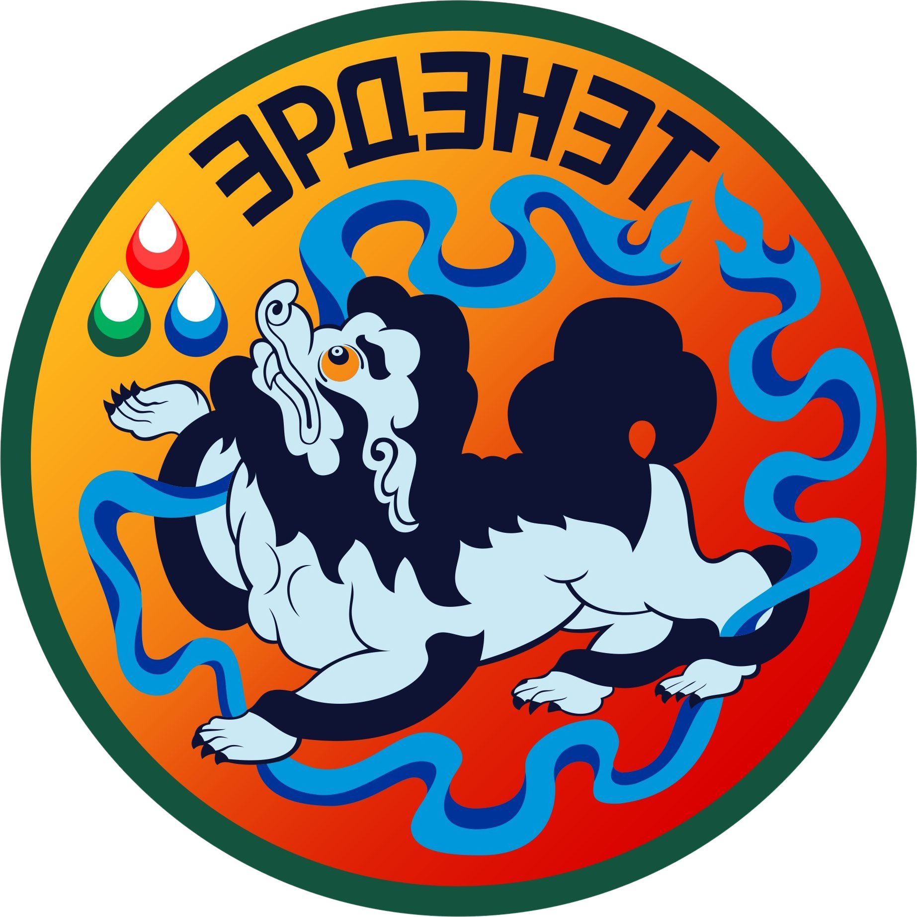 Coat of arms of Erdenet city, Mongolia